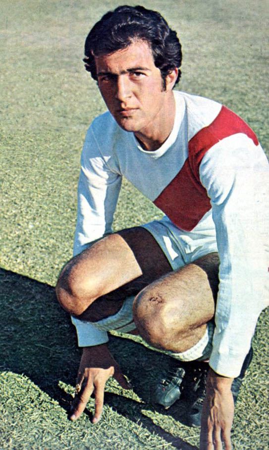 Carlos Morete in an interview.